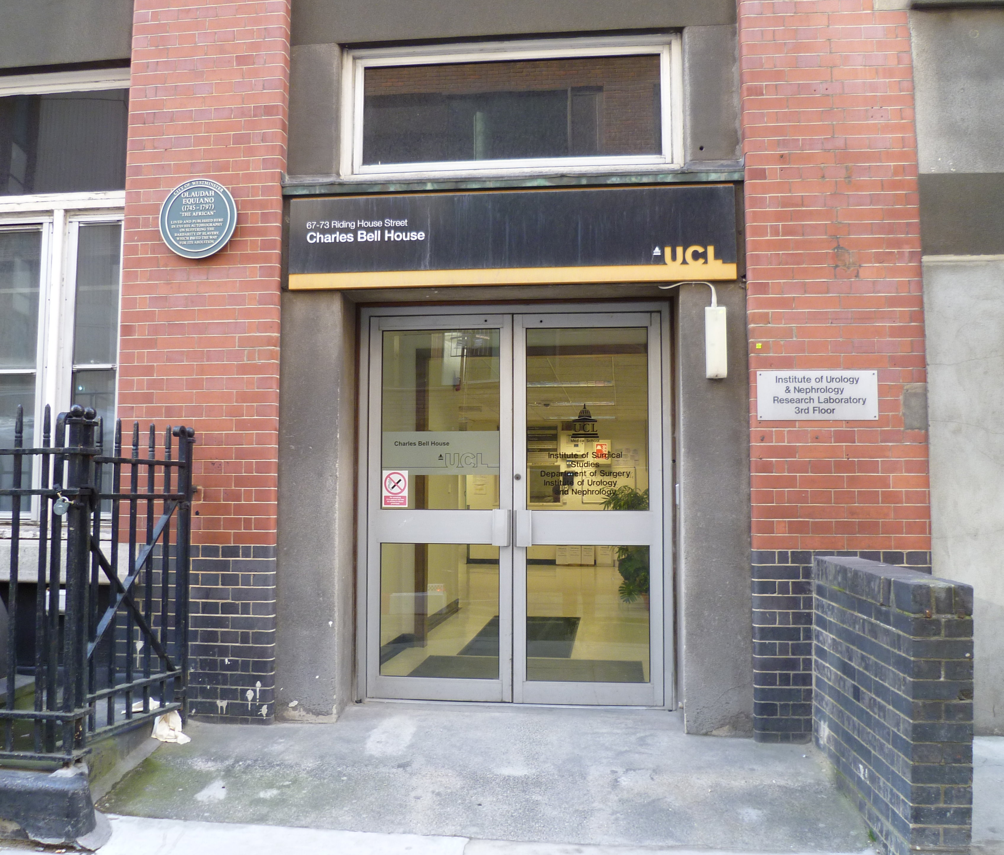 Olaudah Equiano plaque at Charles Bell House, UCL, Riding House Street